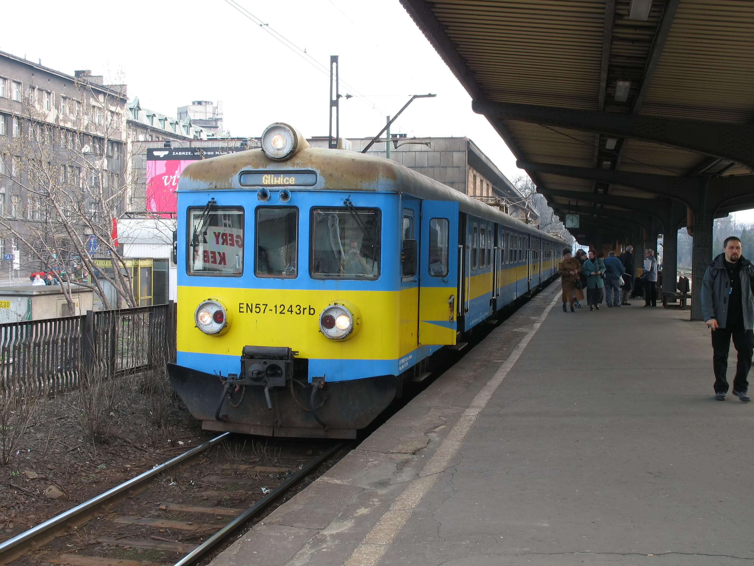 Polish EN57-1243 electric multiple unit in Zabrze